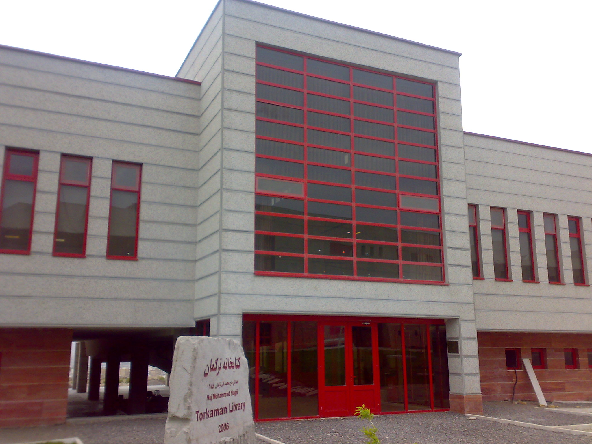 Institute for Advanced Studies in Basic Sciences in Zanjan(IASBS) ,مرکز تحصیلات تکمیلی در علوم پایه